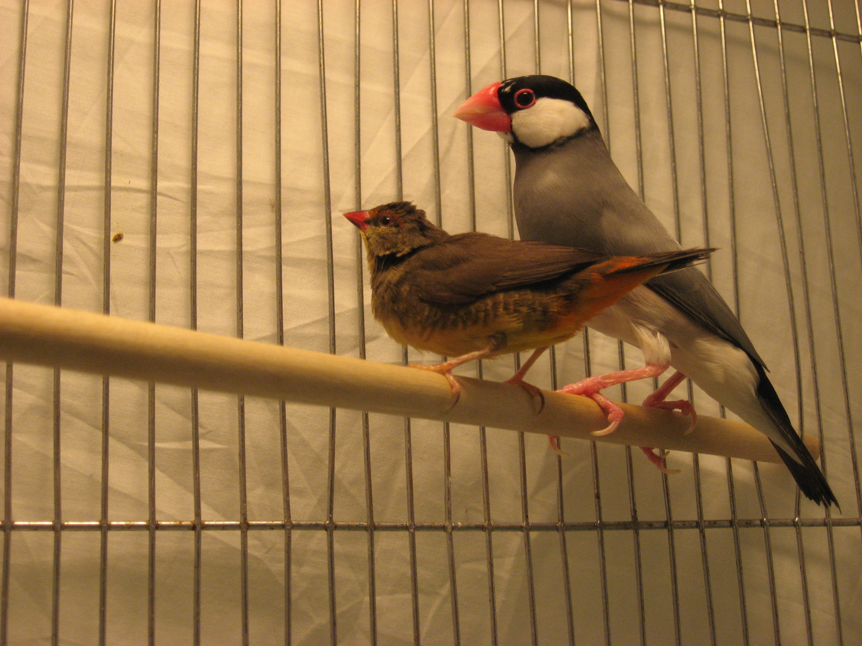 The largest of the waxbill finches, the Java Rice Finch Sparrow (or any combination of those words), and the smallest (by some accounts), the Gold Breast Finch. These two only met for a photo op.